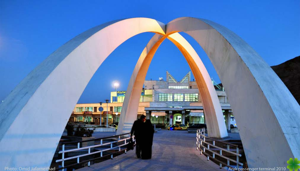 Central Bus Station of Arak..